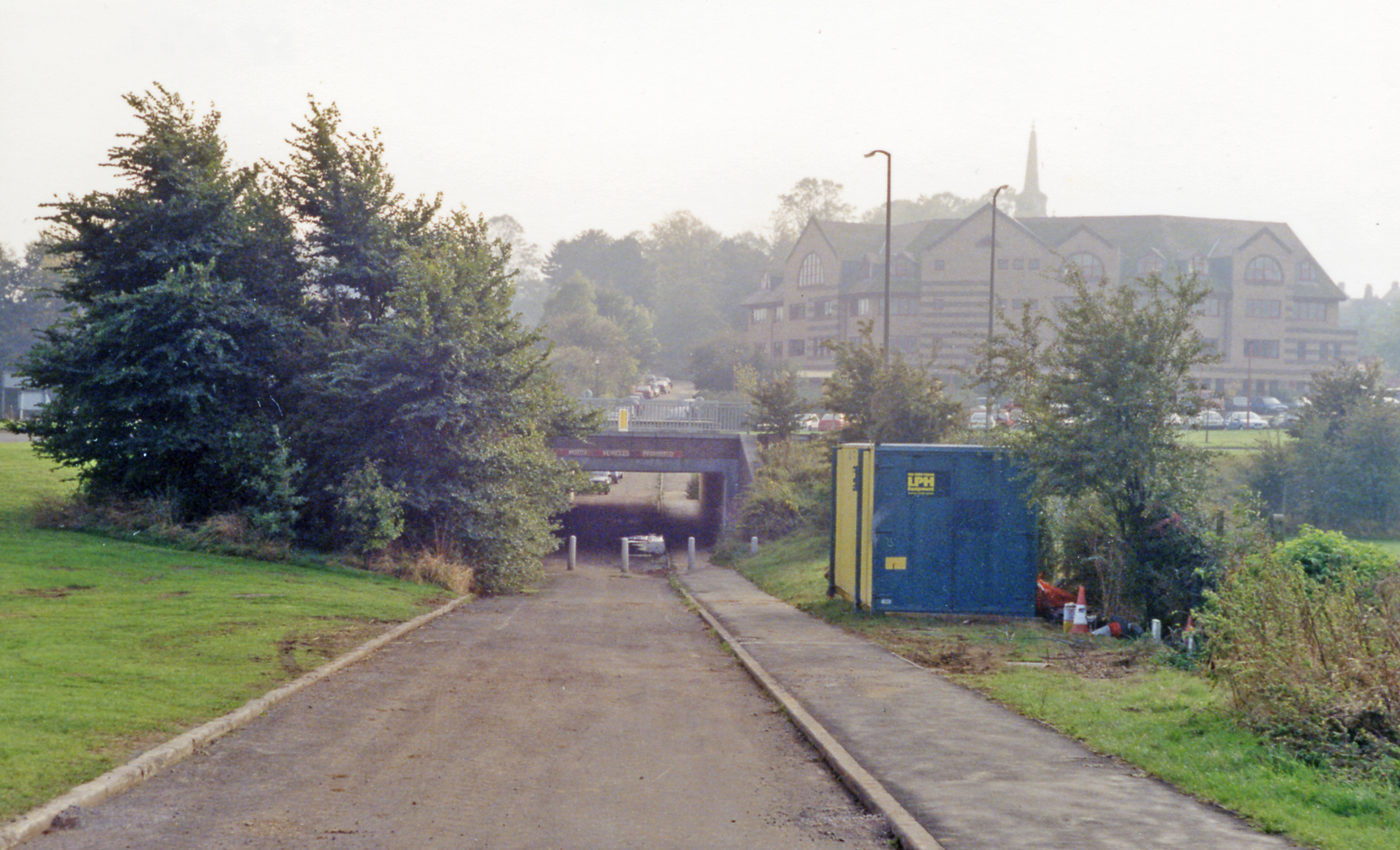 Daventry: near site of station. Somewhere near here until 2/12/63 (passengers 15/9/58) was Daventry station on the ex-LNW Weedon - Warwick branch.